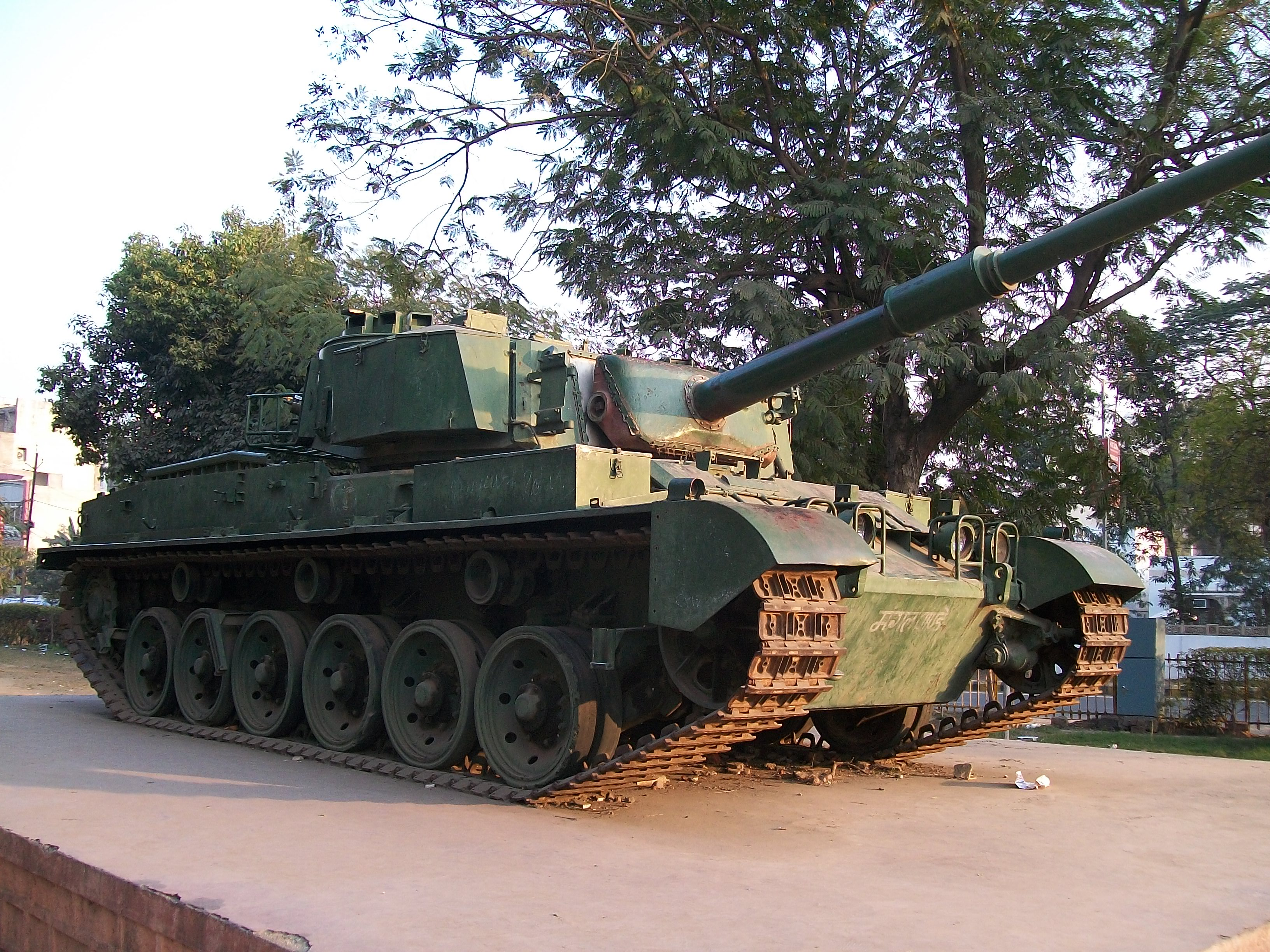 Mangal Pandey, Tank is placed in the front of Kendriya Vidhyalaya No. 5, Gwalior.